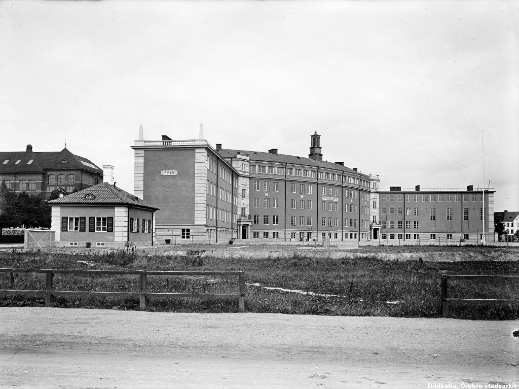 The old Engelbrekt school, Örebro, Sweden